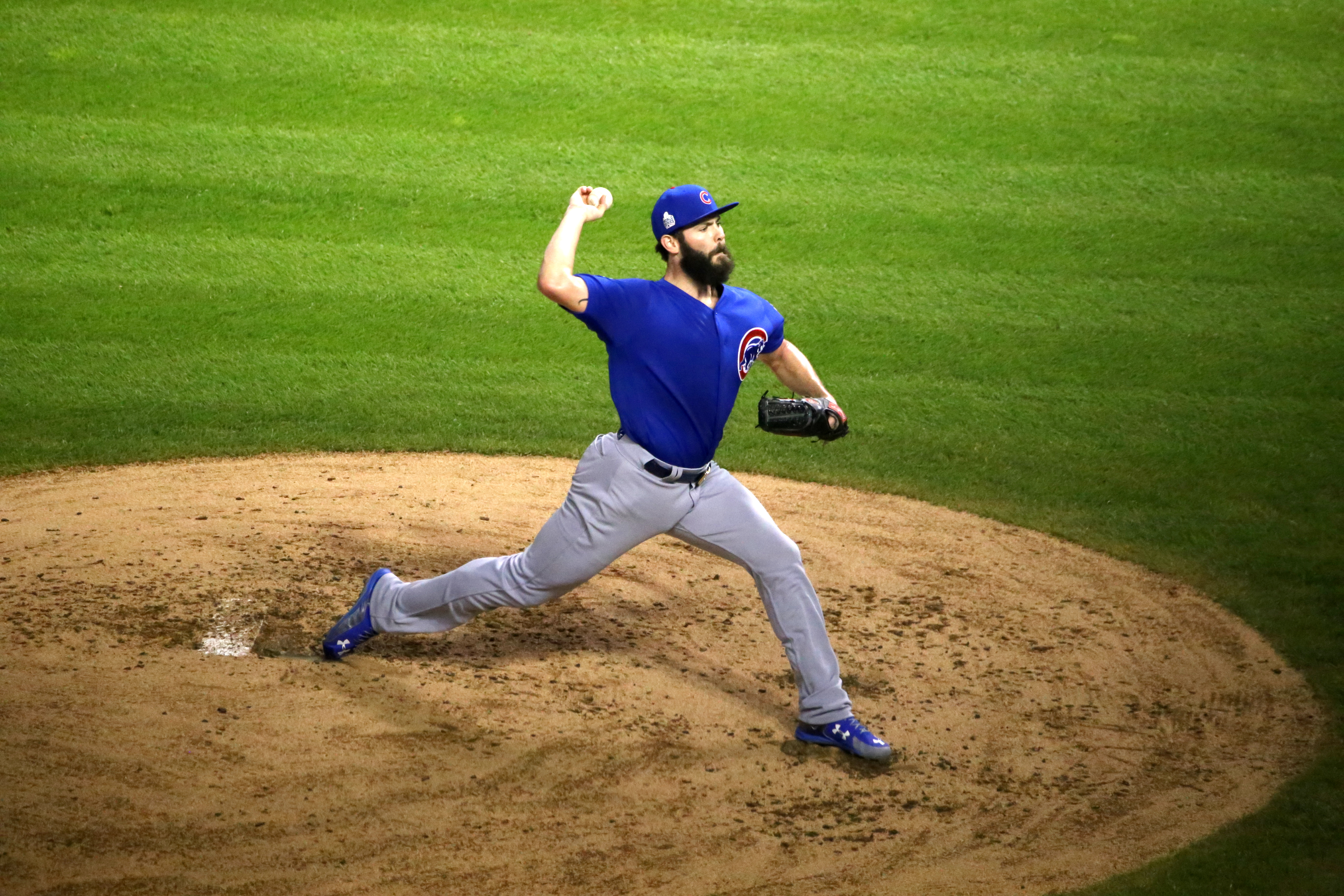 Cubs starter Jake Arrieta delivers a pitch in the first inning of World Series Game 6.